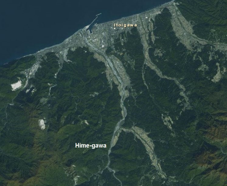 Japan : the Hime river flowing towards the sea of Japan in Itoigawa (Niigata prefecture).